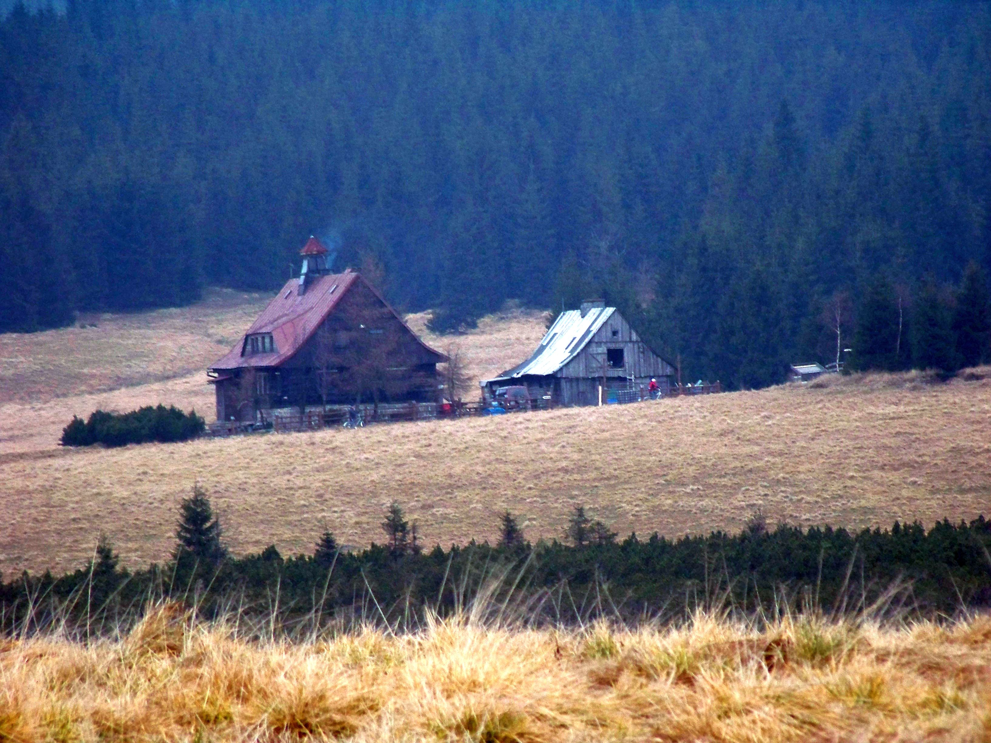 The trail between Orle (Szklarska Poręba, Poland) and Wielka Izera (Gross Iser). Chatka Górzystów. - Google Maps - Google Earth